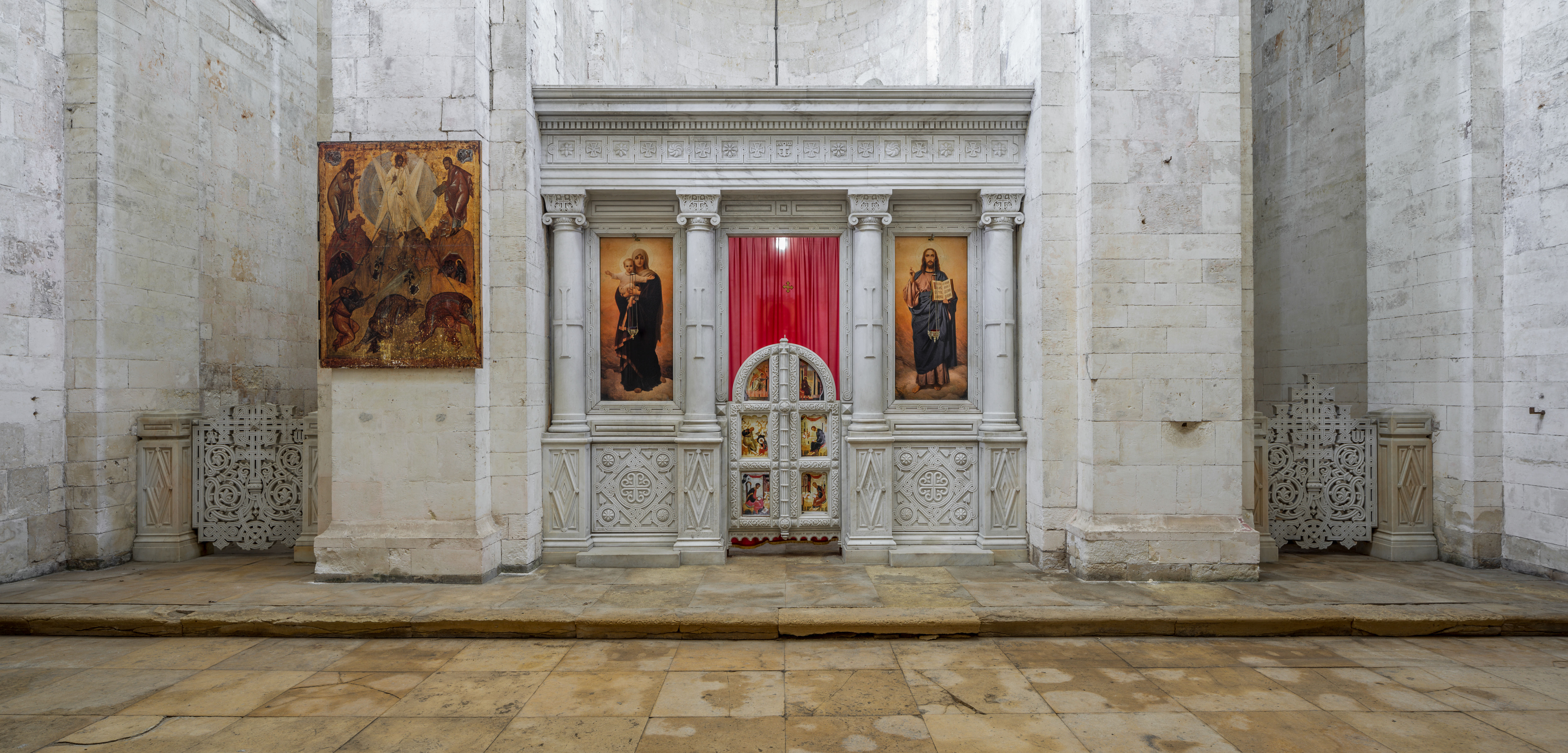 Spaso-Preobrazhensky cathedral in Pereslavl-Zalessky, interior view, iconostasis.